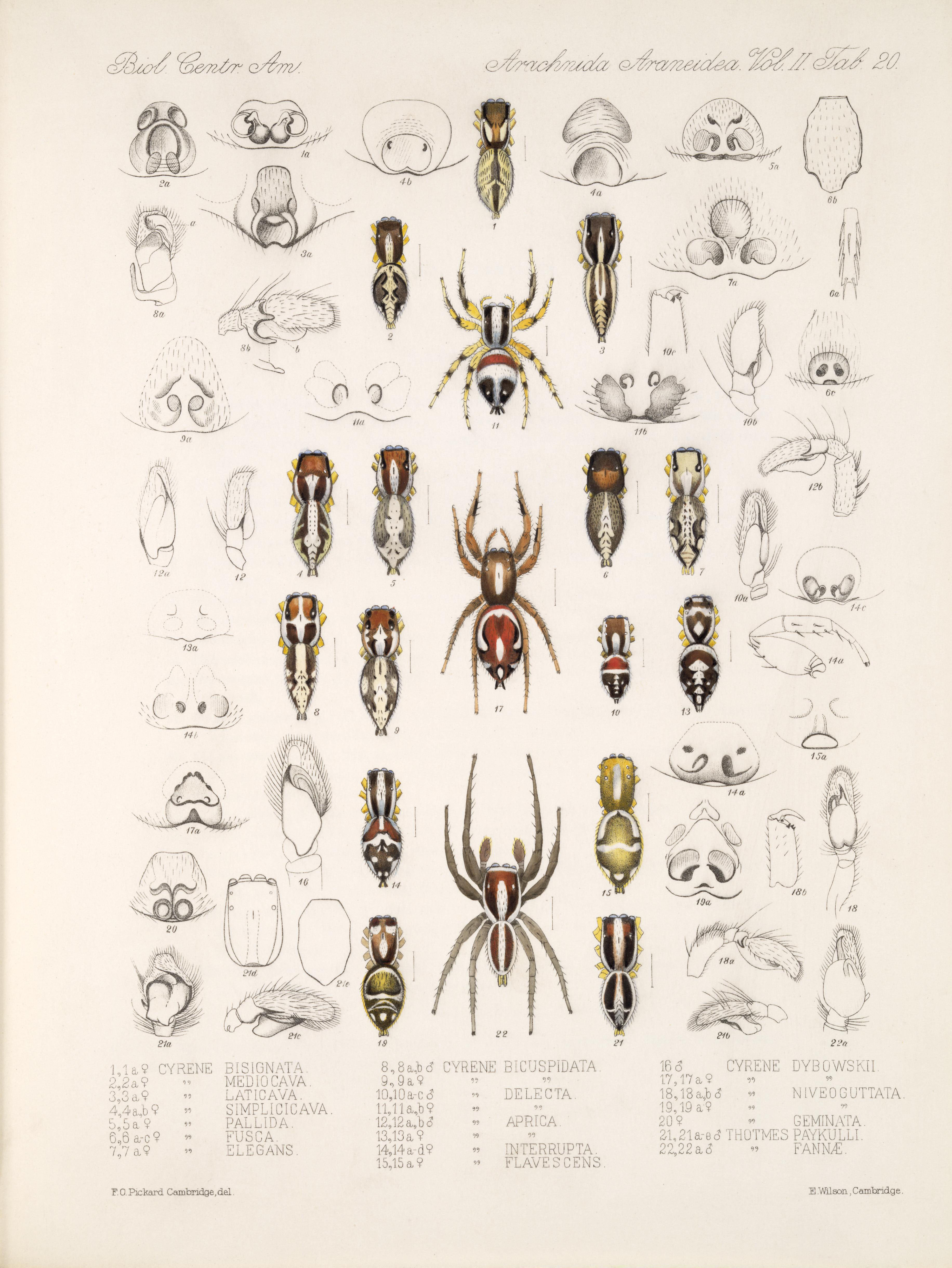 Zoological illustrations of spiders made by Frederick O. Picard-Cambridge for the Biologia Centrali-Americana, an encyclopedia of the natural history of Mexico and Central America